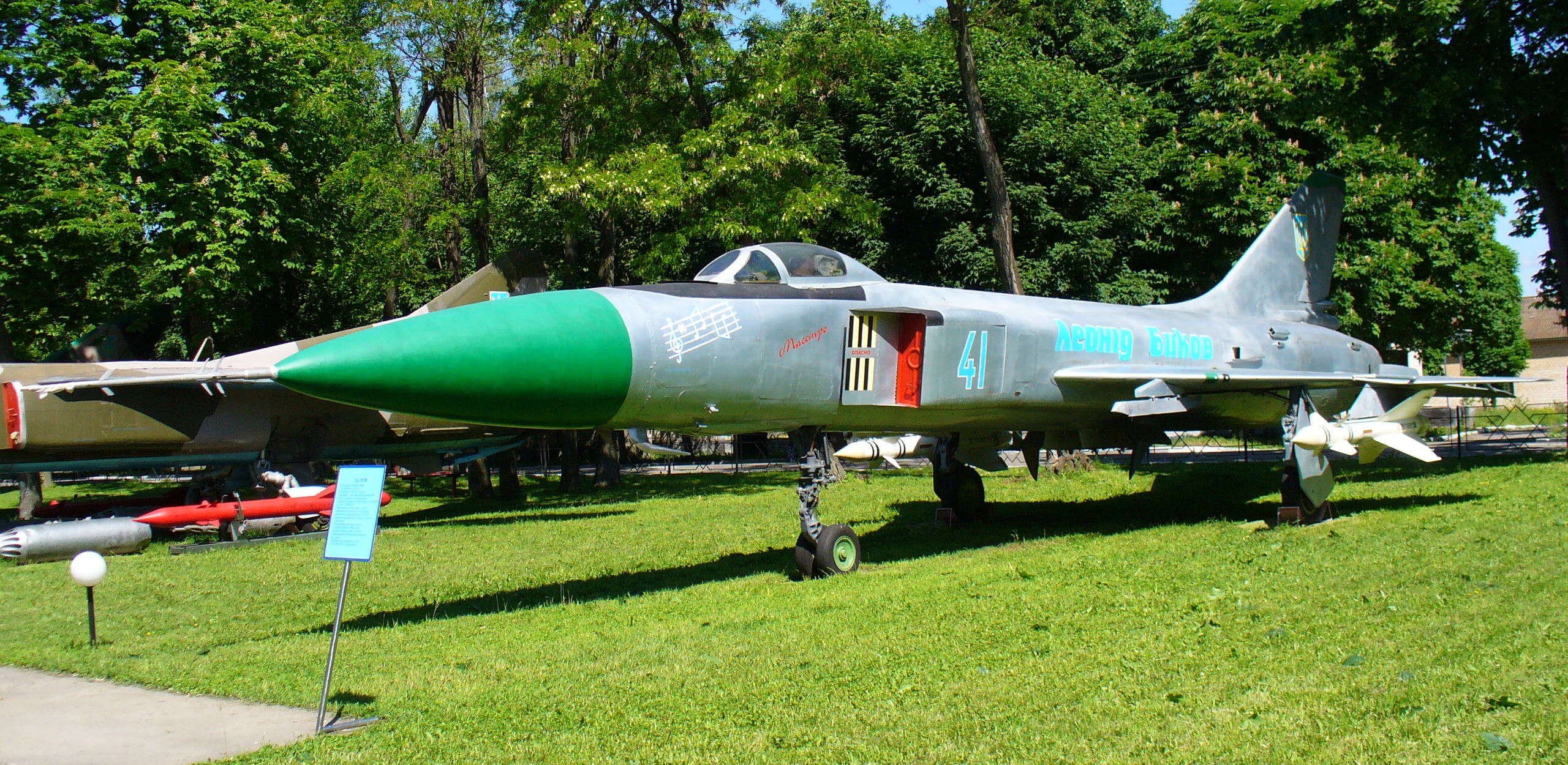 The Sukhoi Su-15TM (NATO reporting name "Flagon-F"), a Soviet interceptor aircraft. Has personal names "Leonid Bykov" and "Maestro" in memory of the Soviet actor Leonid Bykov. Ukrainian Air Force Museum in Vinnitsa.